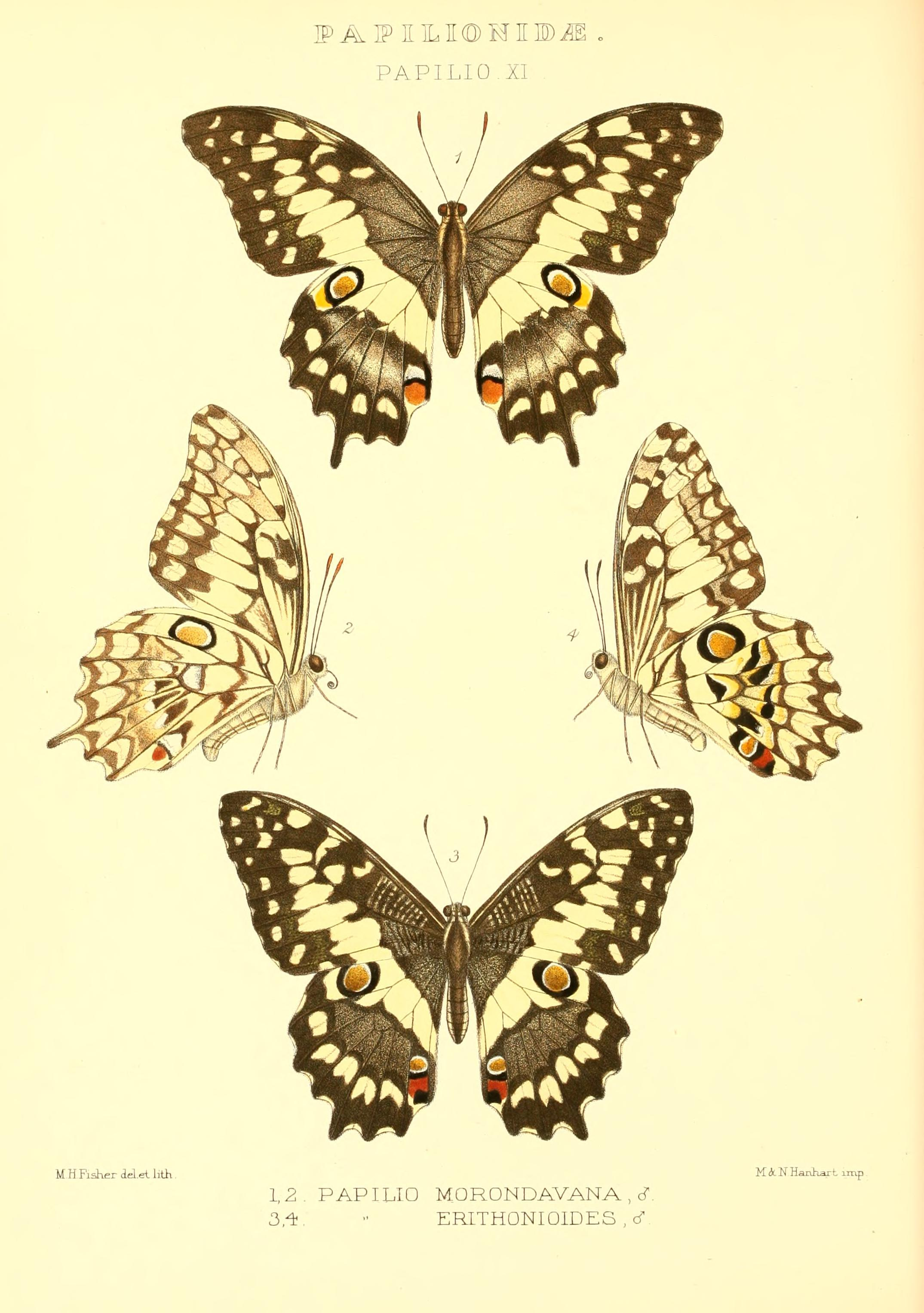 Grose-Smith, H. & Kirby, W.F. (1887-1892): Rhopalocera exotica, being illustrations of new, rare and unfigured species of butterflies London 1:x, [1-183]. Plate Papilio XI Papilio morondavana Grose-Smith, 1891 Papilio erithonioides Grose-Smith, 1891